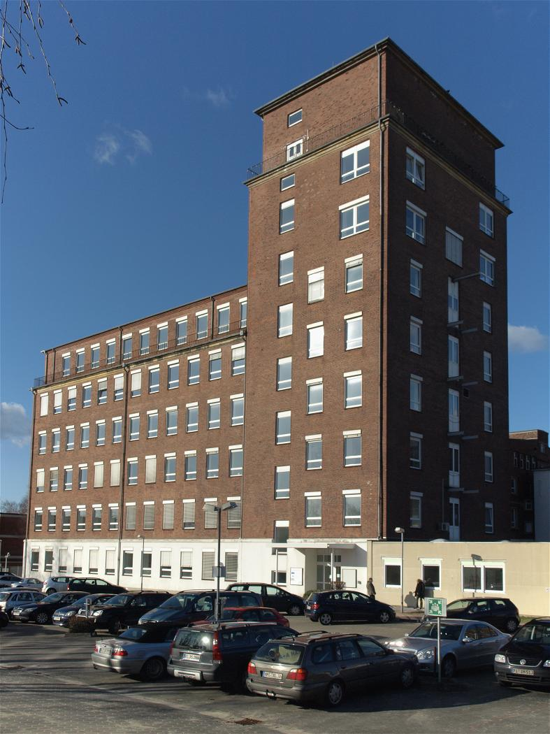 Wedel, Schleswig-Holstein (Germany), Water tower Möller, photo 2010